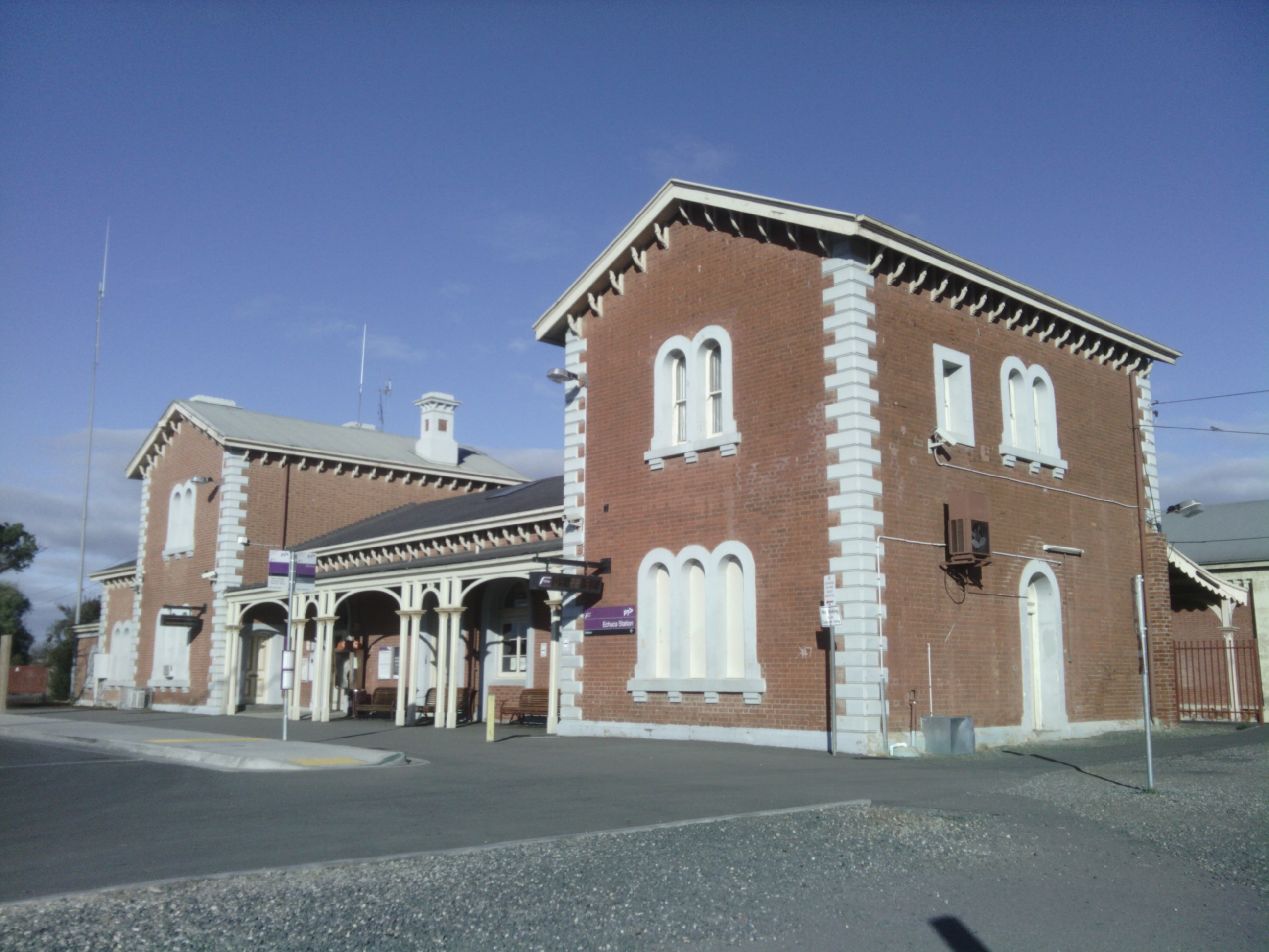 Echuca railway station building.